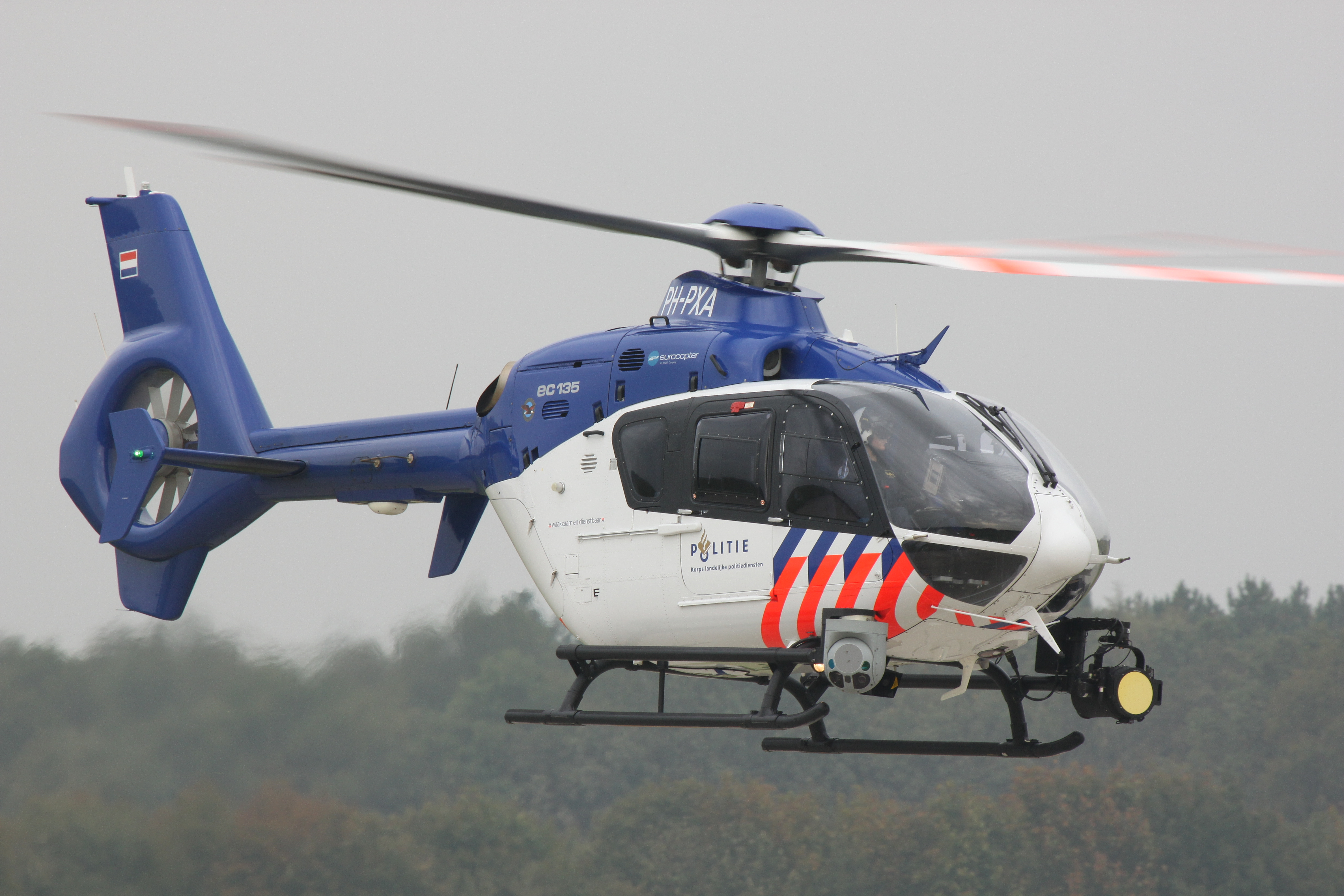 New Dutch Police helicopter PH-PXA Eurocopter EC-135P2i